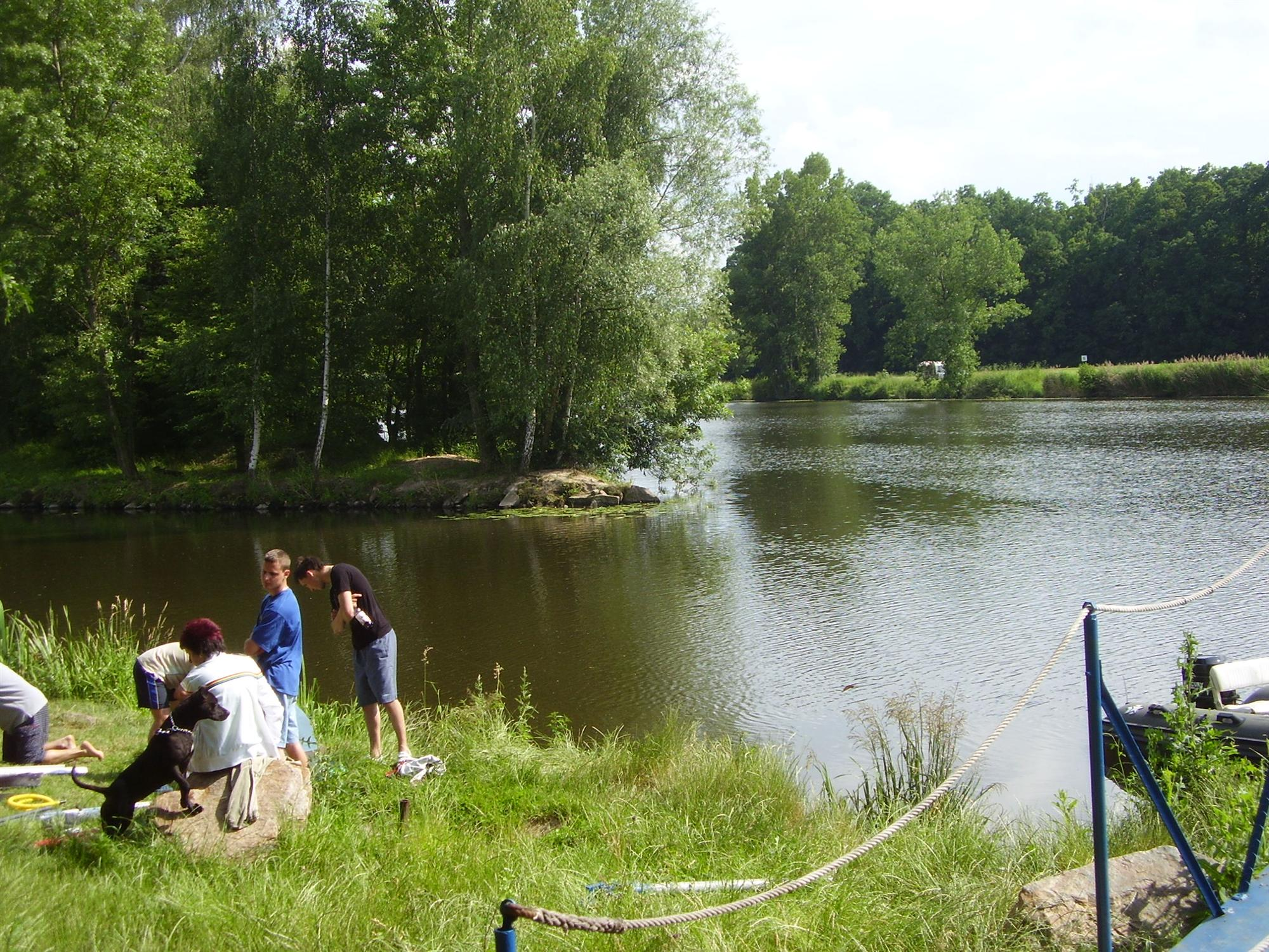 Meeting of Labe and Cidlina near Libice nad Cidlinou